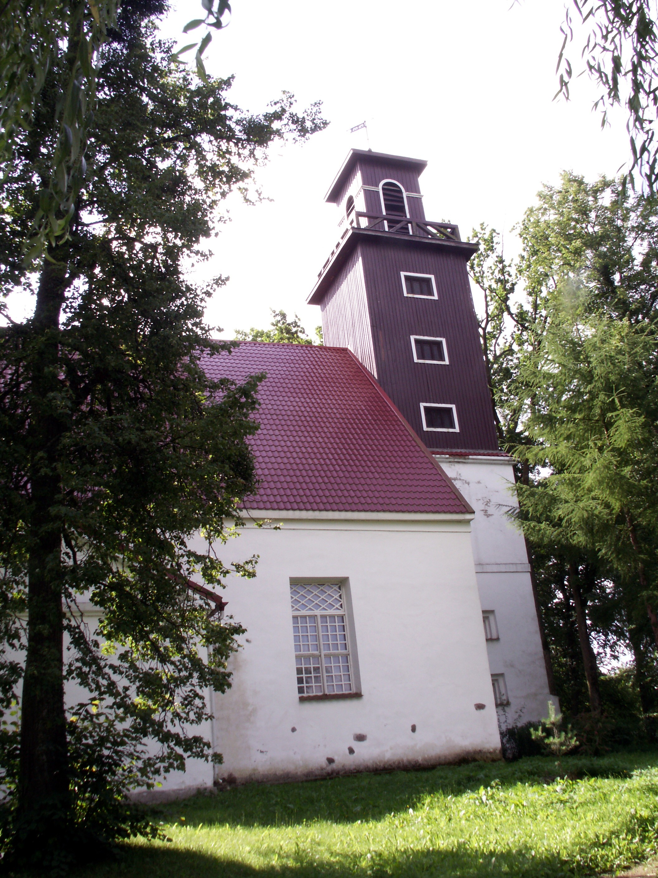 Chistye Prudy in Kaliningrad oblast. Museum of Kristijonas Donelaitis